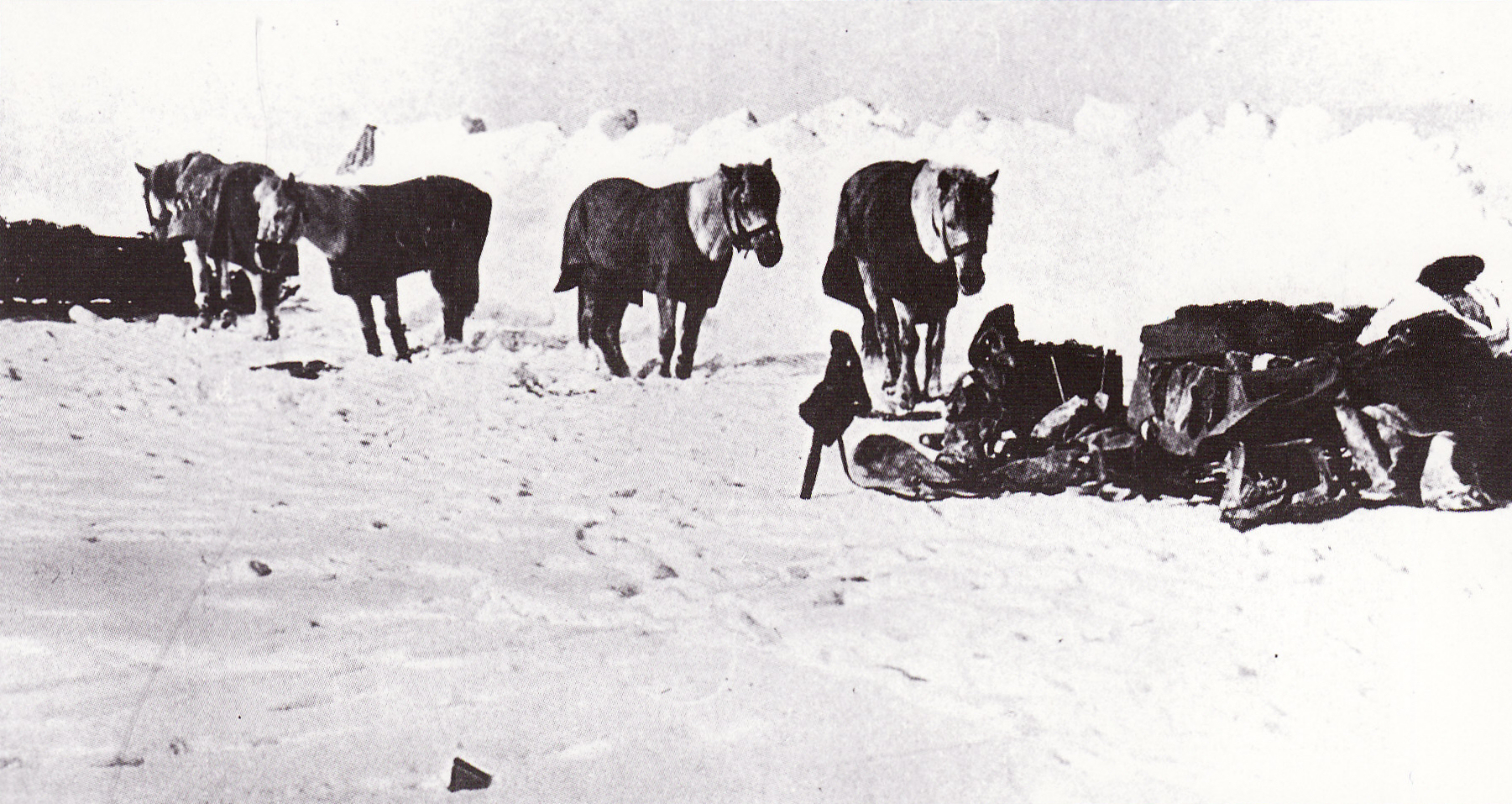 Some of the Terra Nova Expedition's Siberian ponies resting near some supplies.